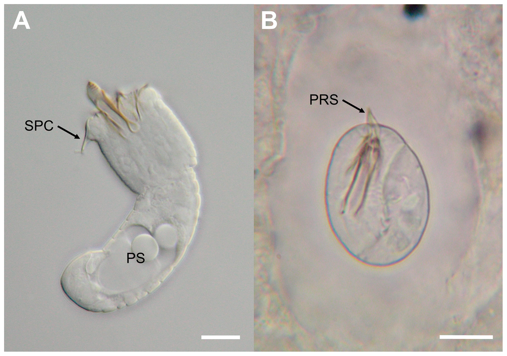 (A) free living larva and (B) cyst within Biomphalaria pfeifferi snail. Abbreviations: PS, pseudointestine; SPC, spine in crown; PRS, protruding spines. Scale bars = 10 µm.